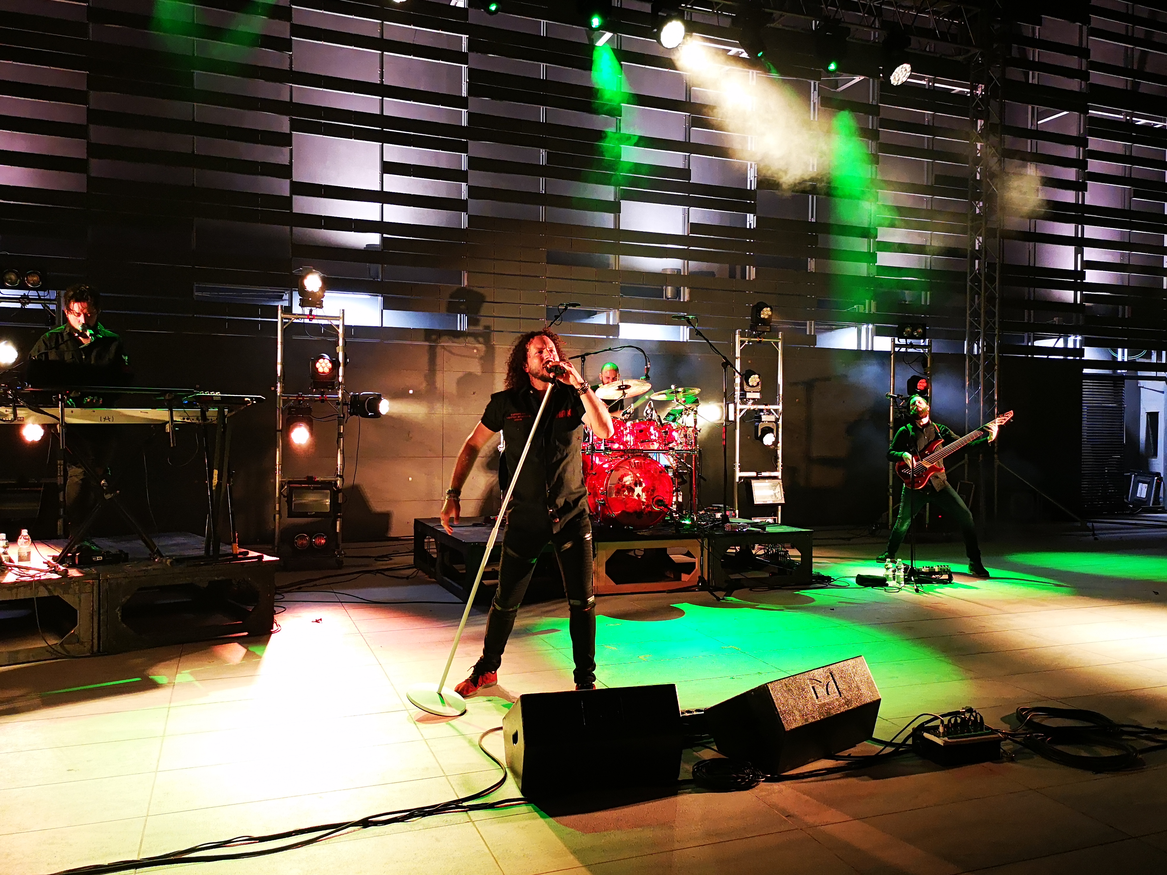 Haken live at Cavea del Teatro del Maggio Musicale Fiorentino in Florence on July 6th, 2019